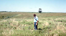 The Bloom Site, a National Historic Landmark in Hanson County, South Dakota, United States.